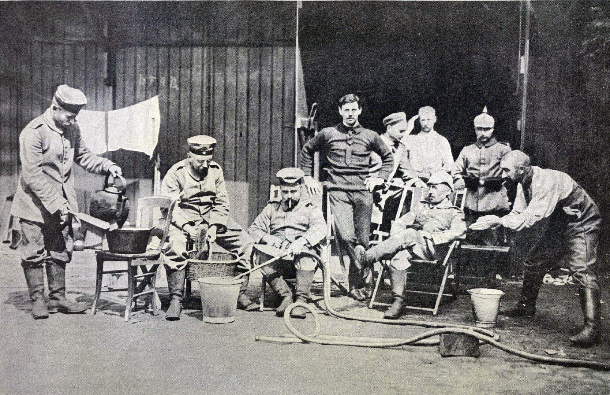 German beermaking team (Liège, 1914)